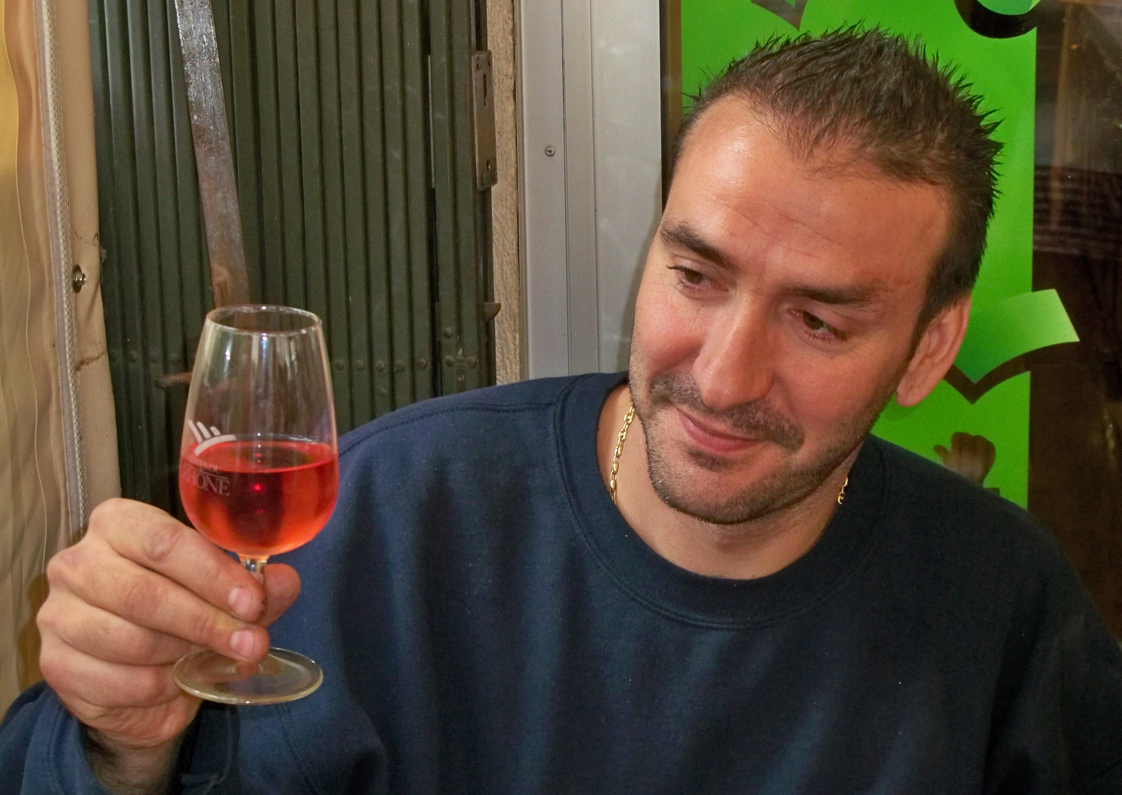 wine tasting